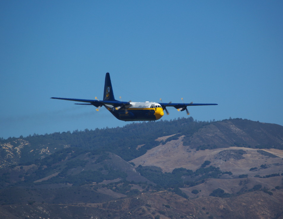 United States Navy Flight Demonstration Squadron, Fat Albert, the C-130T of the Blue Angels